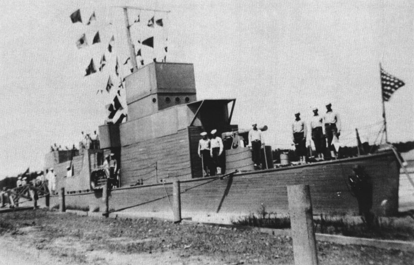 A U.S. Navy training ship at Camp Peary, Virginia, circa 1945. A wooden mock-up of a destroyer escort was built in the fall and winter of 1944 at Camp Peary and used during the 16-week recruit training courses held at the Camp. It was nicknamed "Miss Never Sail" and still stood in 1946.